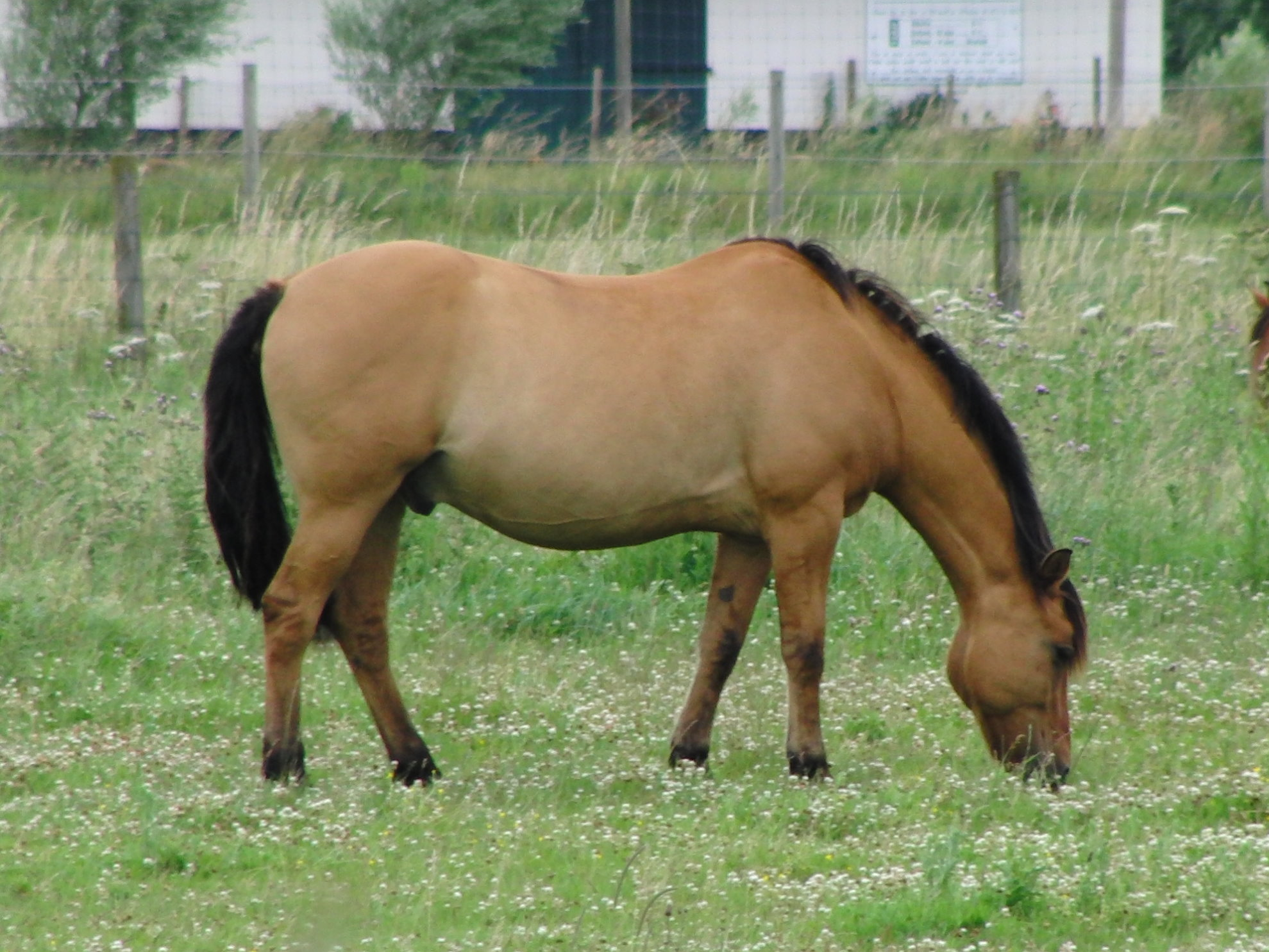 Henson horse, Haras Henson de Saint-Jean, Rue, Somme, France